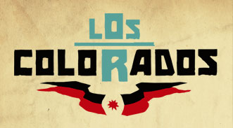 Logo Los Colorados